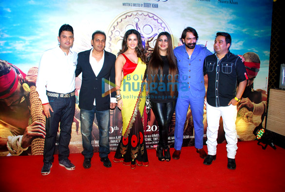 The cast, director and producers of the film Ek Paheli Leela at trailer launch event.